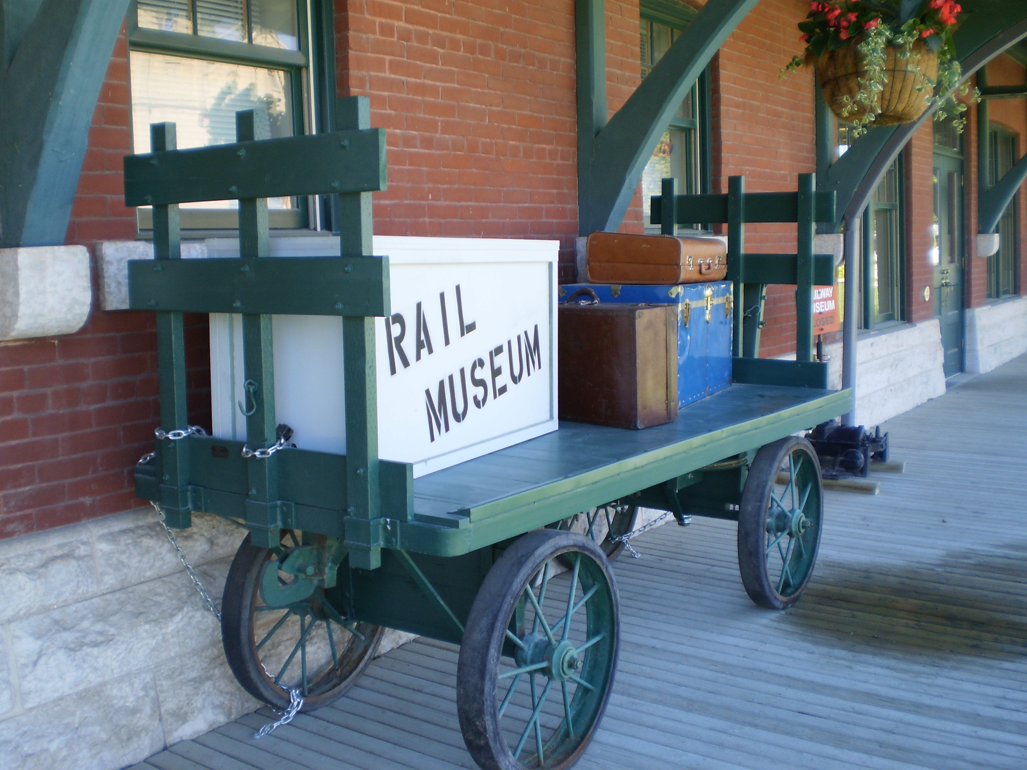 Dauphin Railway Station, Rail Museum